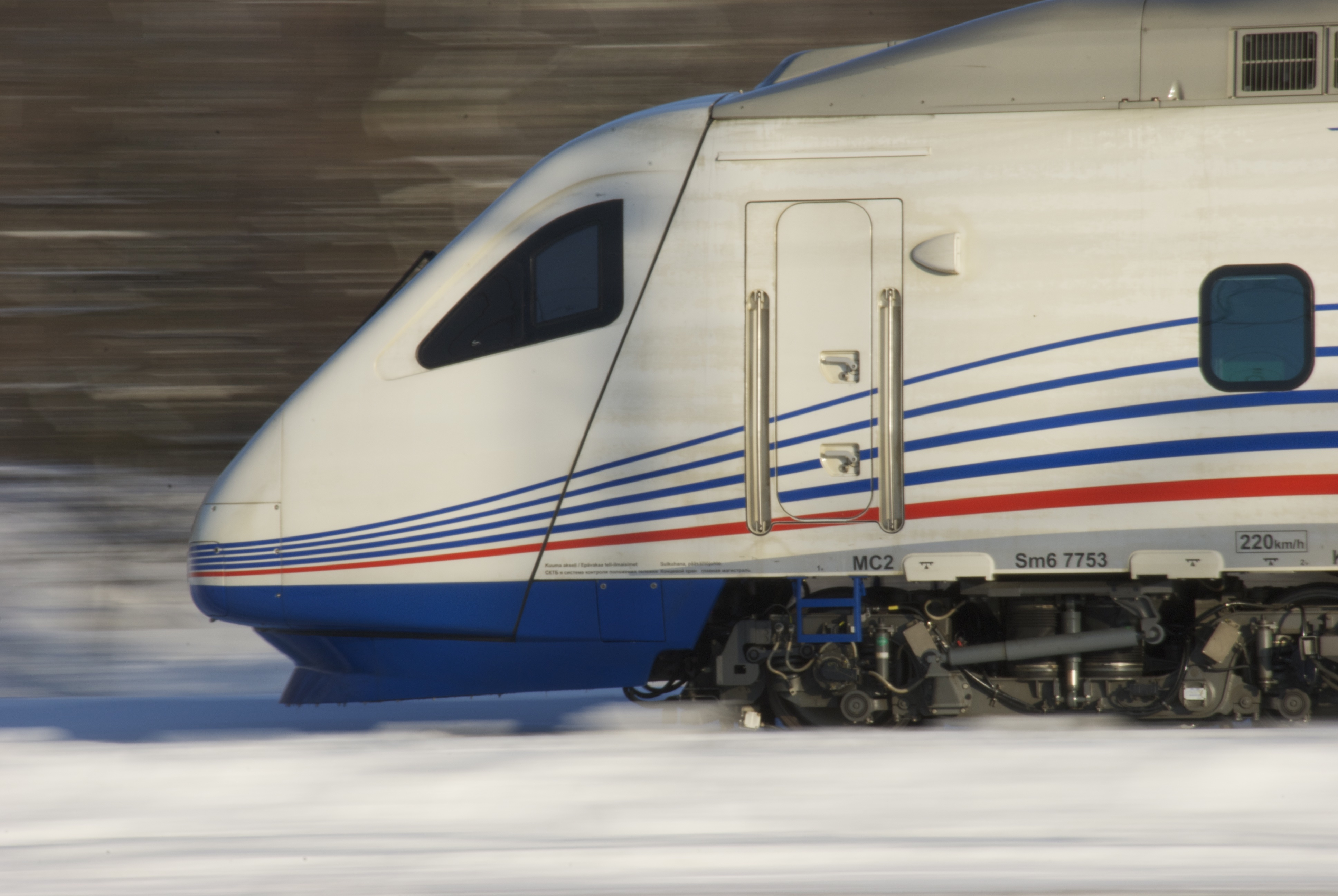 Karelian Trains Class Sm6 Allegro leaving Helsinki.